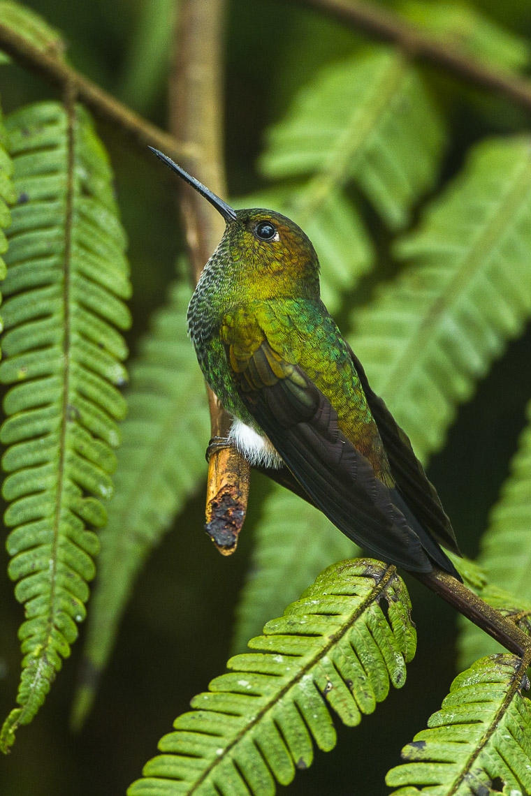 Greenish Puffleg - Colombia_S4E3301